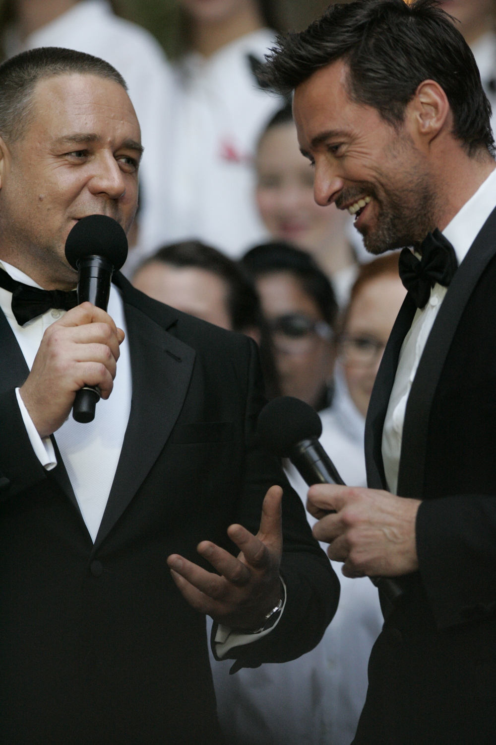 Russell Crowe, Hugh Jackman at the Les Misérables red carpet movie premiere, Sydney, Australia...